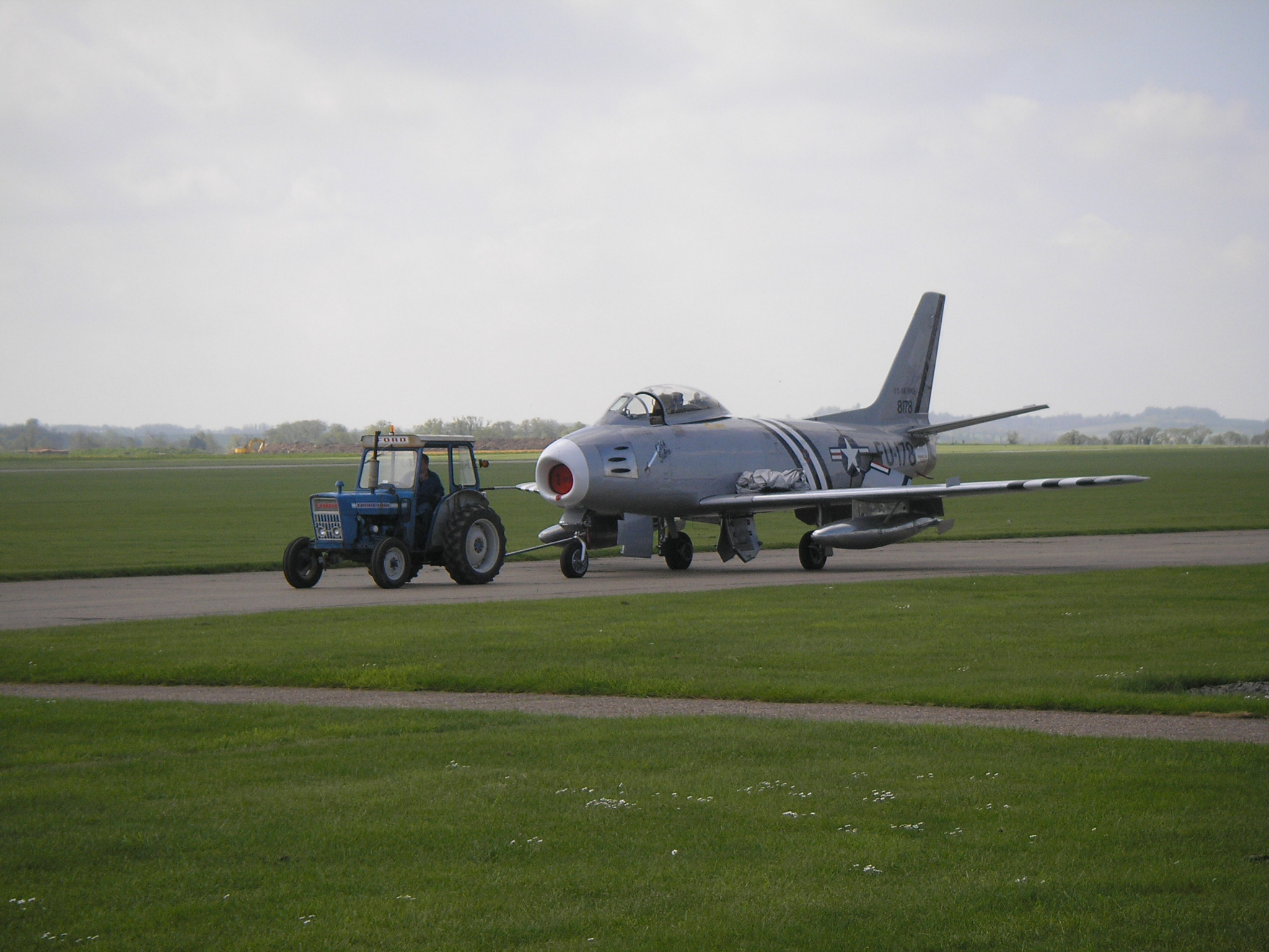 A preserved F-86 Sabre being towed by a tractor at Imperial War Museum Duxford in May 2006